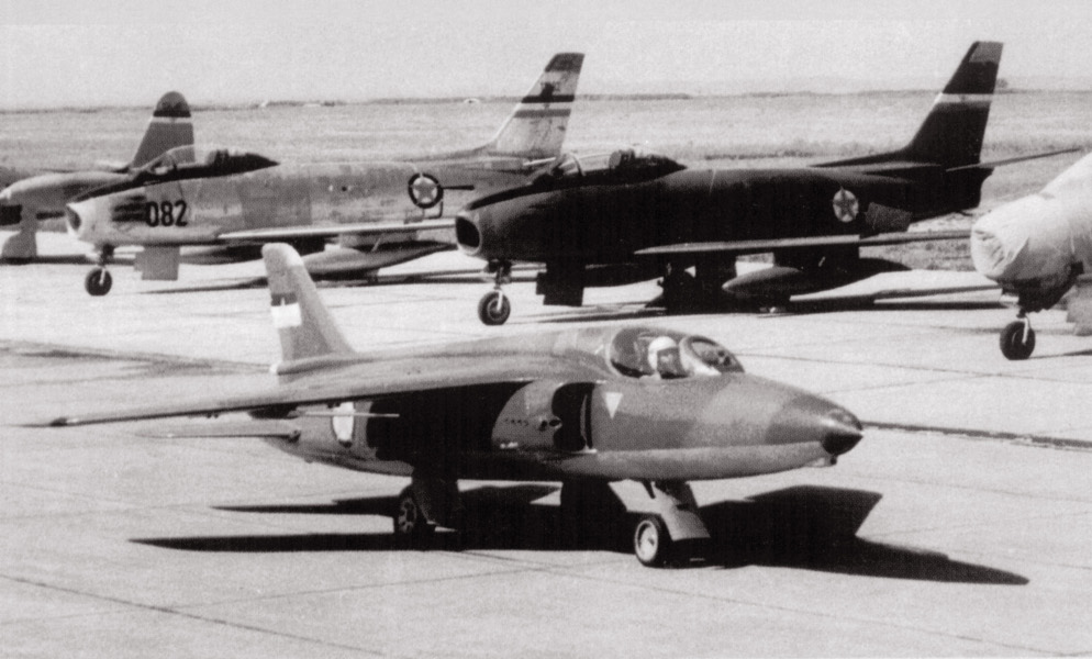 Foland Gnat F Mk.I - testing the Testing Center